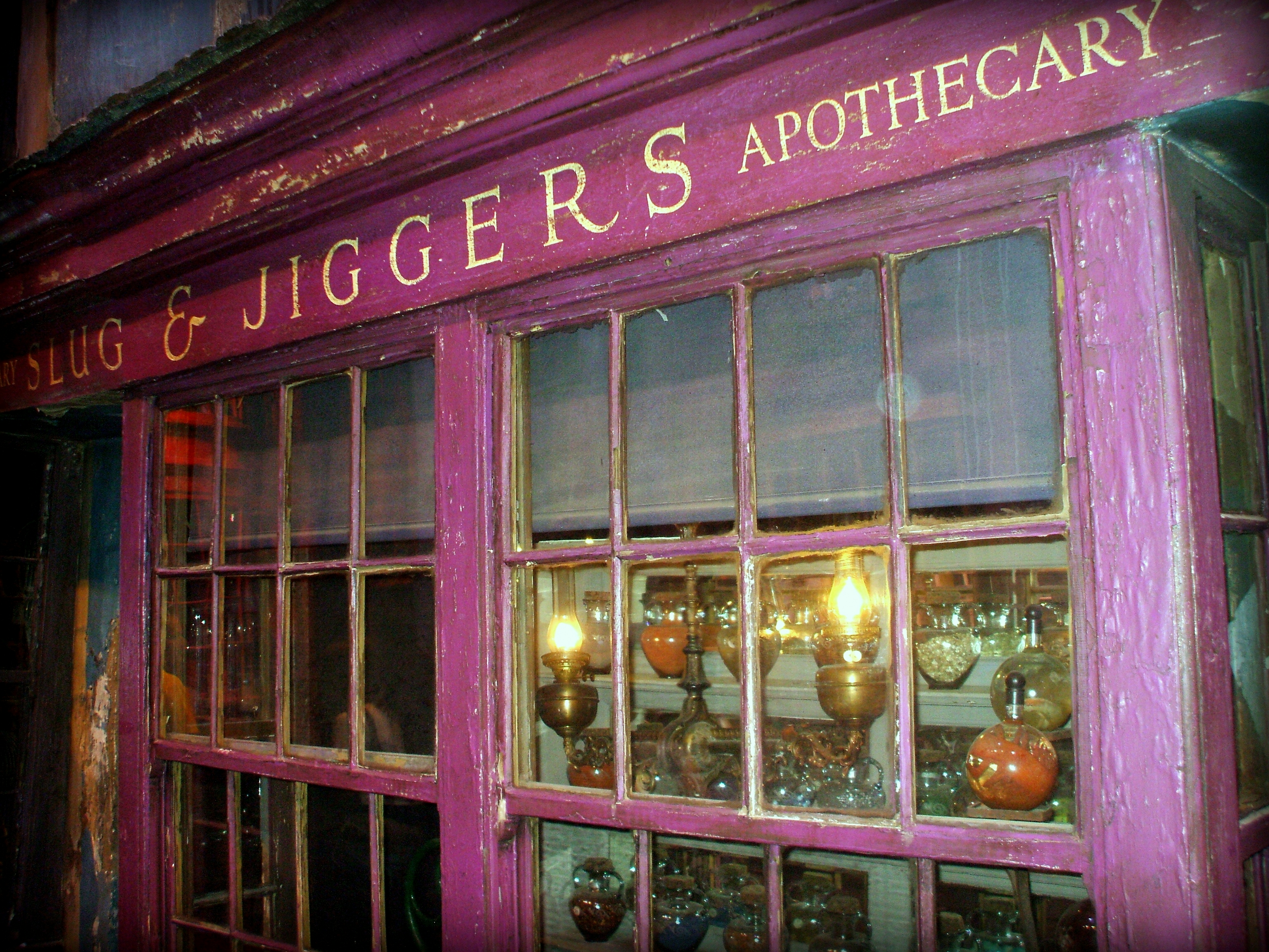 Slug & Jigglers Apothecary, Diagon Alley. Harry Potter film set at Warner Bros. Studios, Leavesden, UK